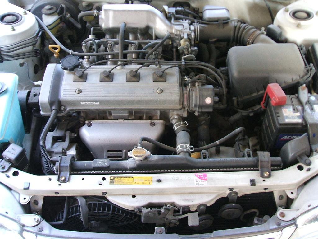 Toyota 5A-FE engine for Toyota Corolla.